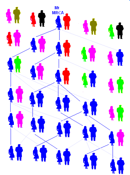 Illustration of Mitochondrial Eve